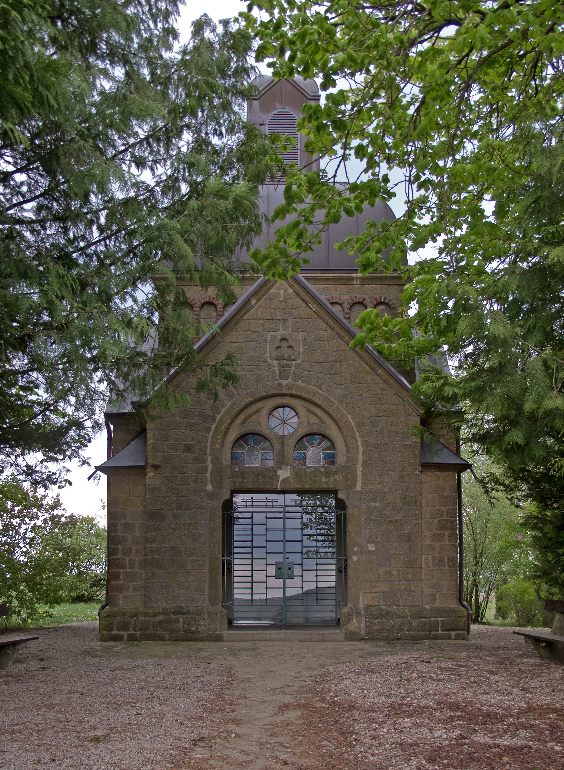 Eenelter chapel near Reckange